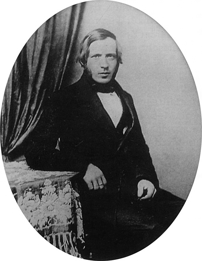 Christian Sörensen, inventor of the typesetting machine "Tacheotyp"